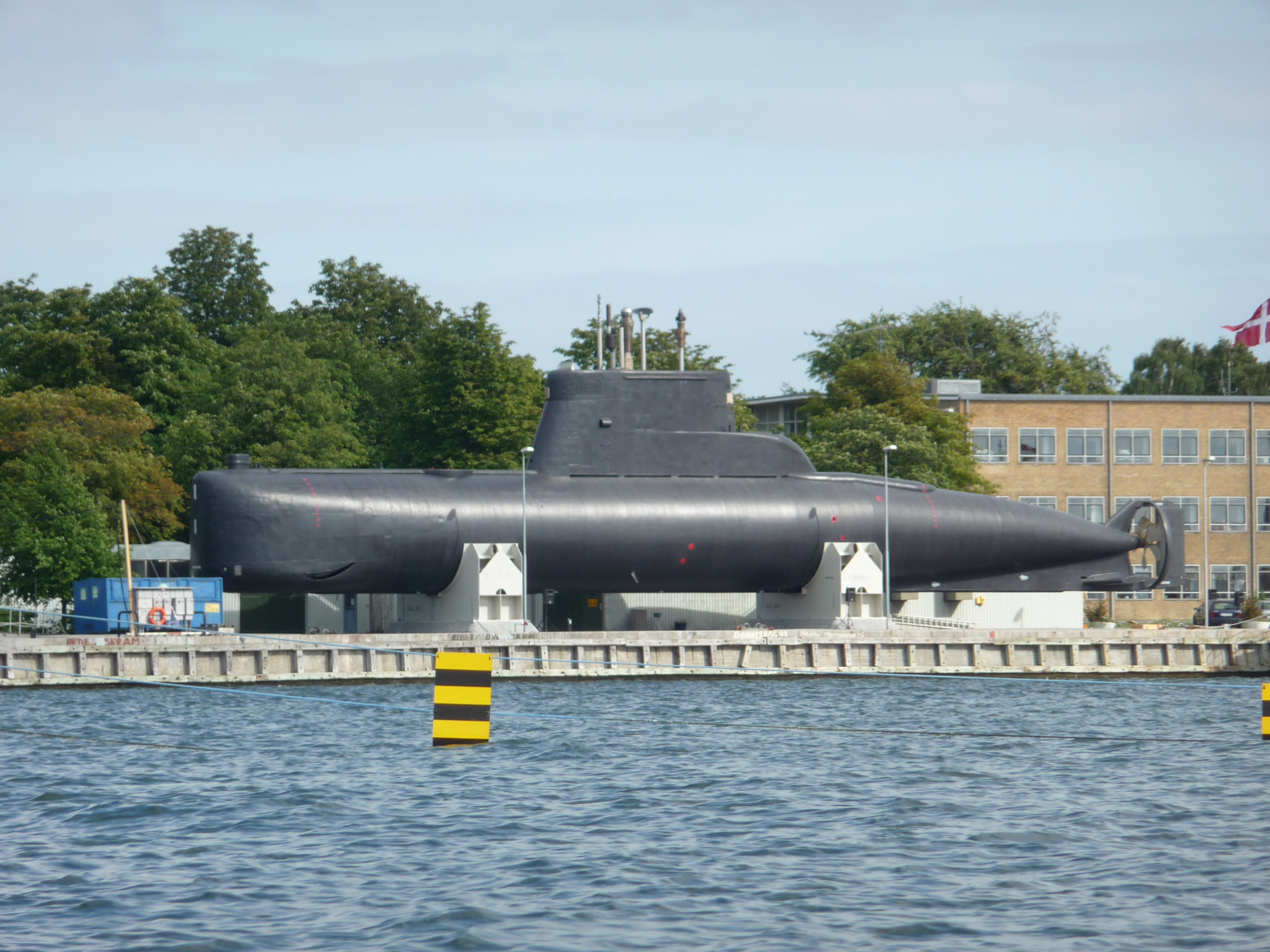 Danish Submarine